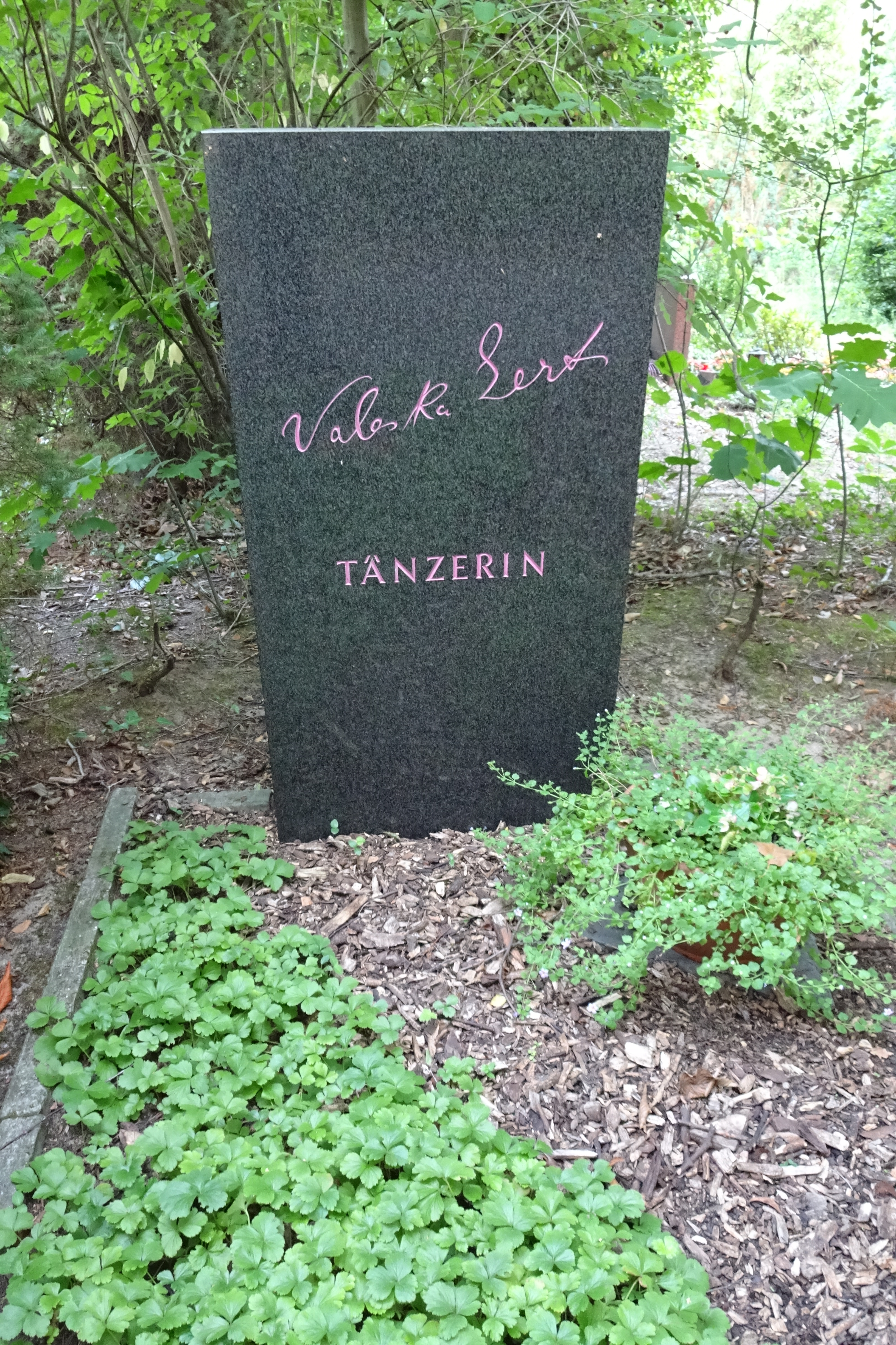 Grave of German dancer and cabaret artist Valeska Gert in Friedhof Ruhleben in Berlin-Westend